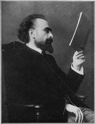 Mikayel Varandian, historians from Armenia and member of the Armenian Revolutionary Federation